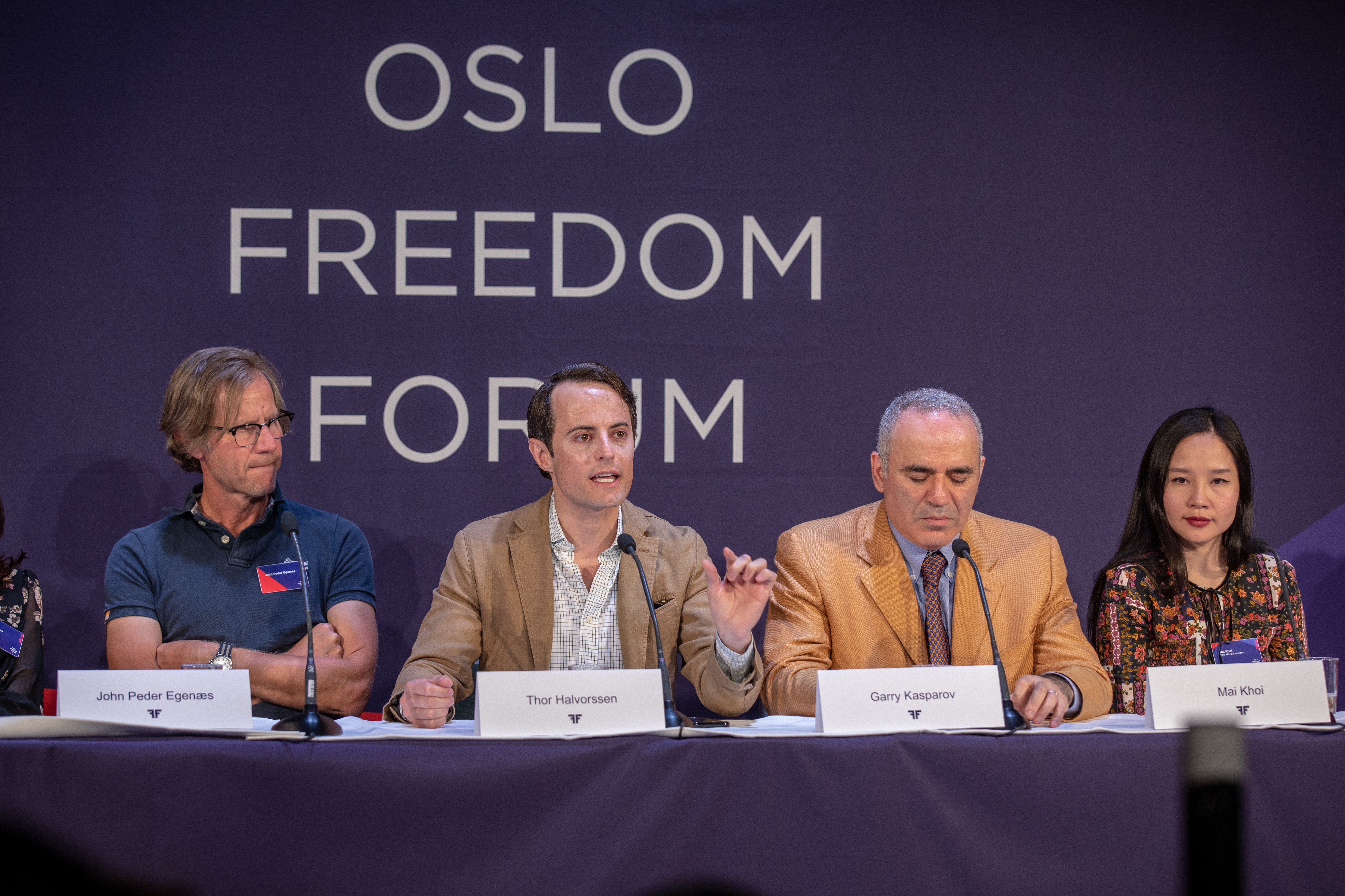 From the press conference of the 2018 Oslo Freedom Forum.